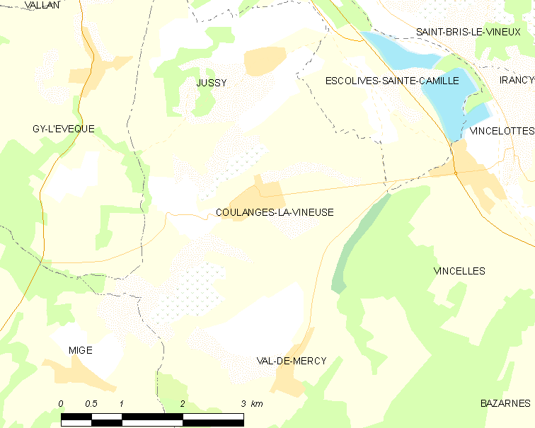 Map of French municipality Coulanges-la-Vineuse